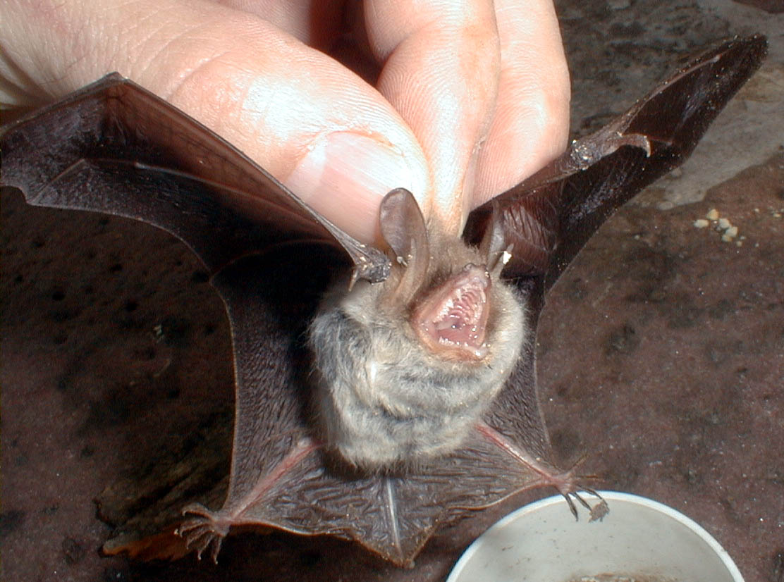 Natterer's bat (Myotis nattereri) in Bensheim (Germany)